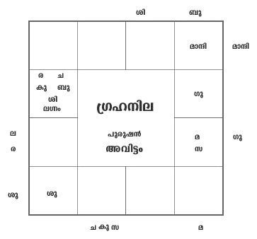 Vedic astrologic chart in Malayalam